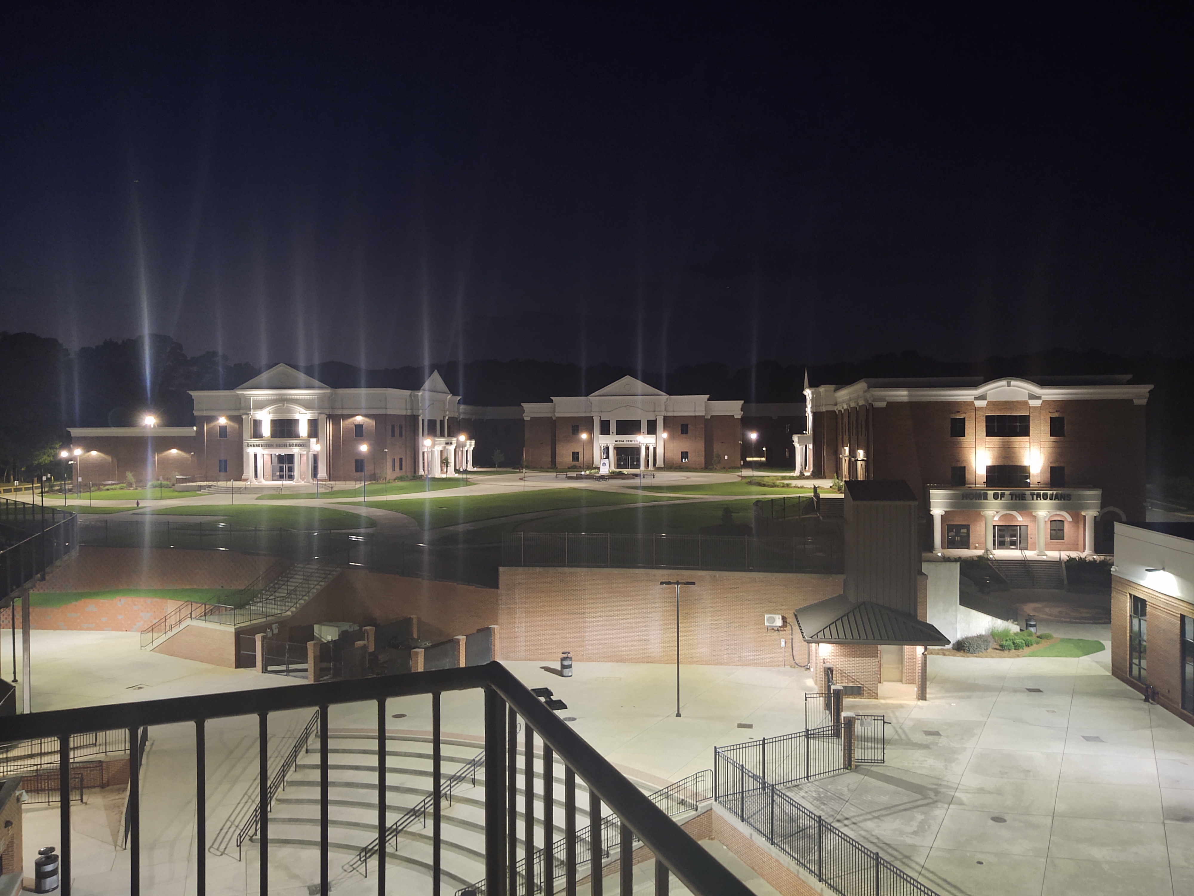 The main courtyard at Carrollton High School in Carrollton, Georgia which showcases the three distinct halls which was the result of renovations that took place from 2015 to 2019.